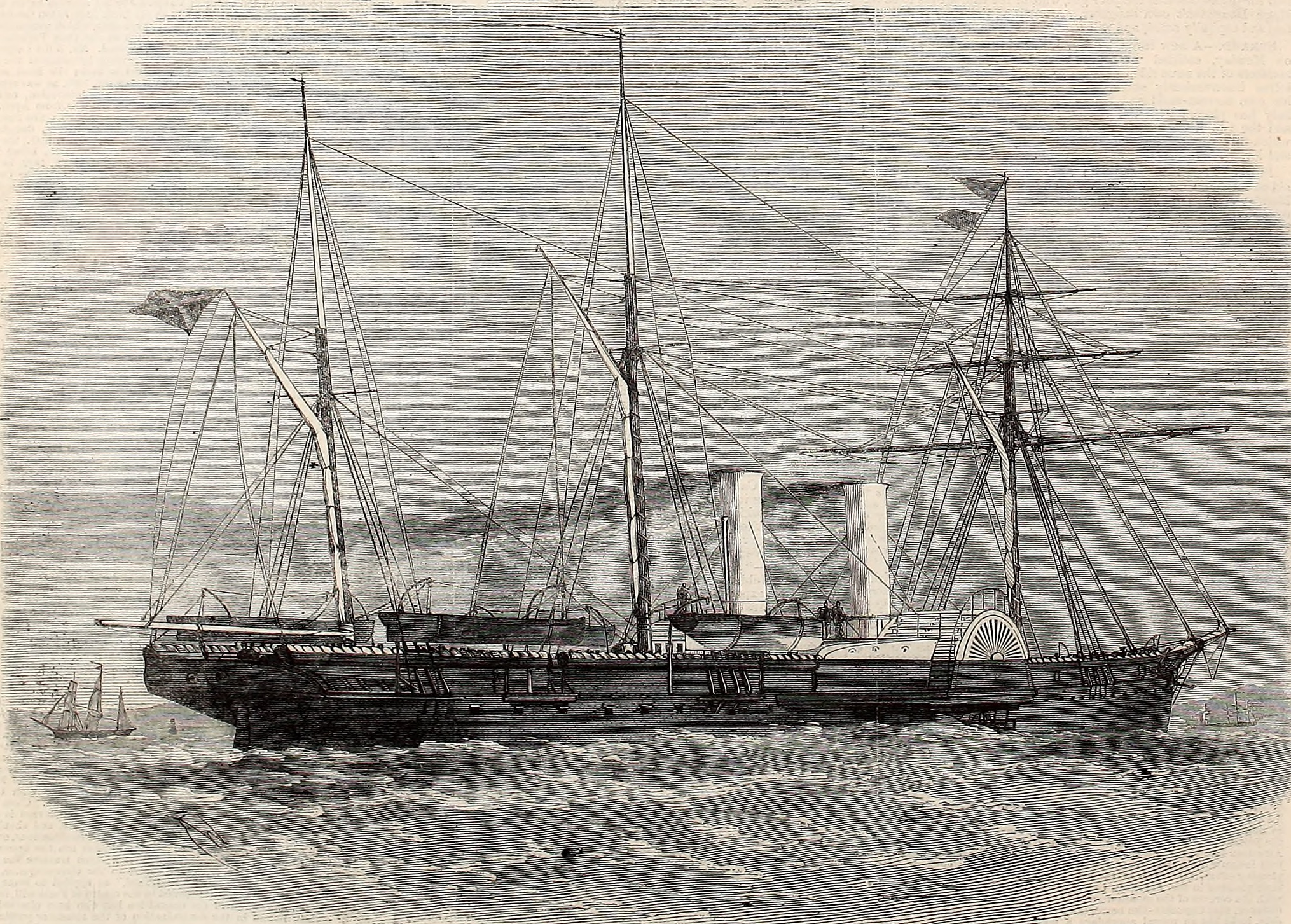 A sketch of Imperial Chinese despatch-boat Keang-soo, flagship of Lay-Osborn flotilla. It was sold to Japan after the flotilla was disbanded and renamed Kasuga. The sketch is based on a photograph taken by Mr. Fararel of Chinese Government service (possibly Chinese Maritime Customs Service).